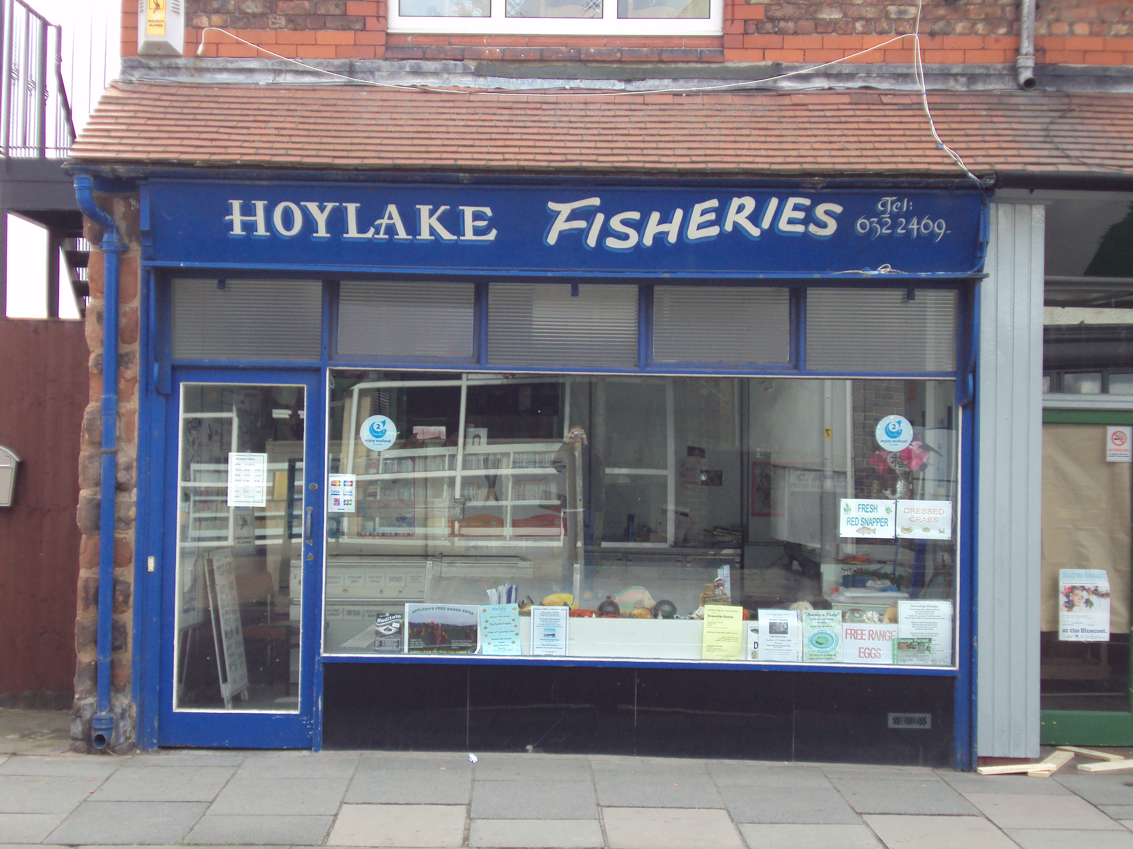 Fishmonger shop on the A553 road at Hoylake, Wirral, England.